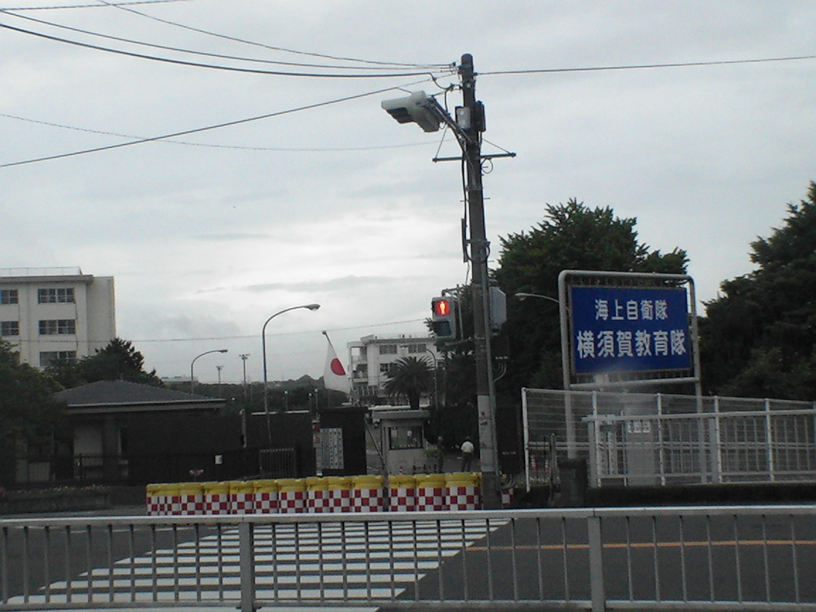 Camp takeyama,north gate